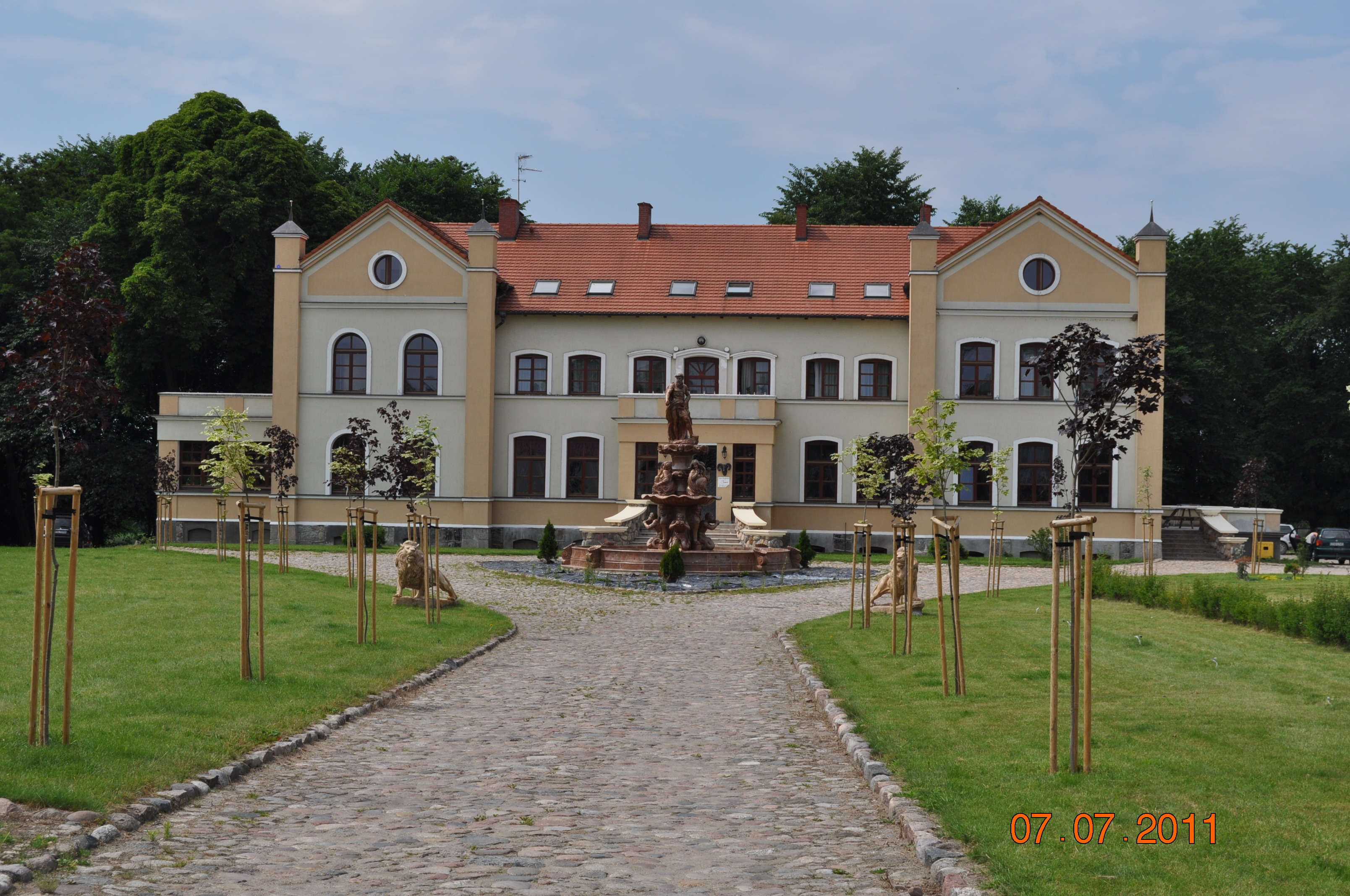 Palace in Słonowice, Poland